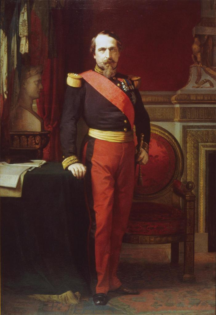 Napoleon III, Emperor of the French